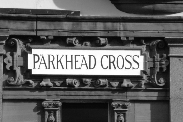 Parkhead Cross (street sign) This street sign is on a building on Tollcross Road; the street to the left is the start of Duke Street. WARNING IF TAKING PHOTOGRAPHS IN THIS AREA While taking this shot I was approached by several locals who thought I was a press photographer. I was advised to be careful as a press photographer the previous day was set upon as he was putting a story together about the locals who were possible drug dealers or benefit fraudsters.